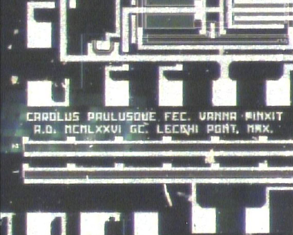 An electron micrograph of a hidden watermark on CCD filter from 1976. The watermark is a latin inscription naming the researchers and their supervisor and the year: Carolus Paulusque fecit Vanna pinxit Anno Domini MCMLXXVI GC. Lecchi Pontifex Maximus. Image kindly donated by prof. Giuseppe Ferla.